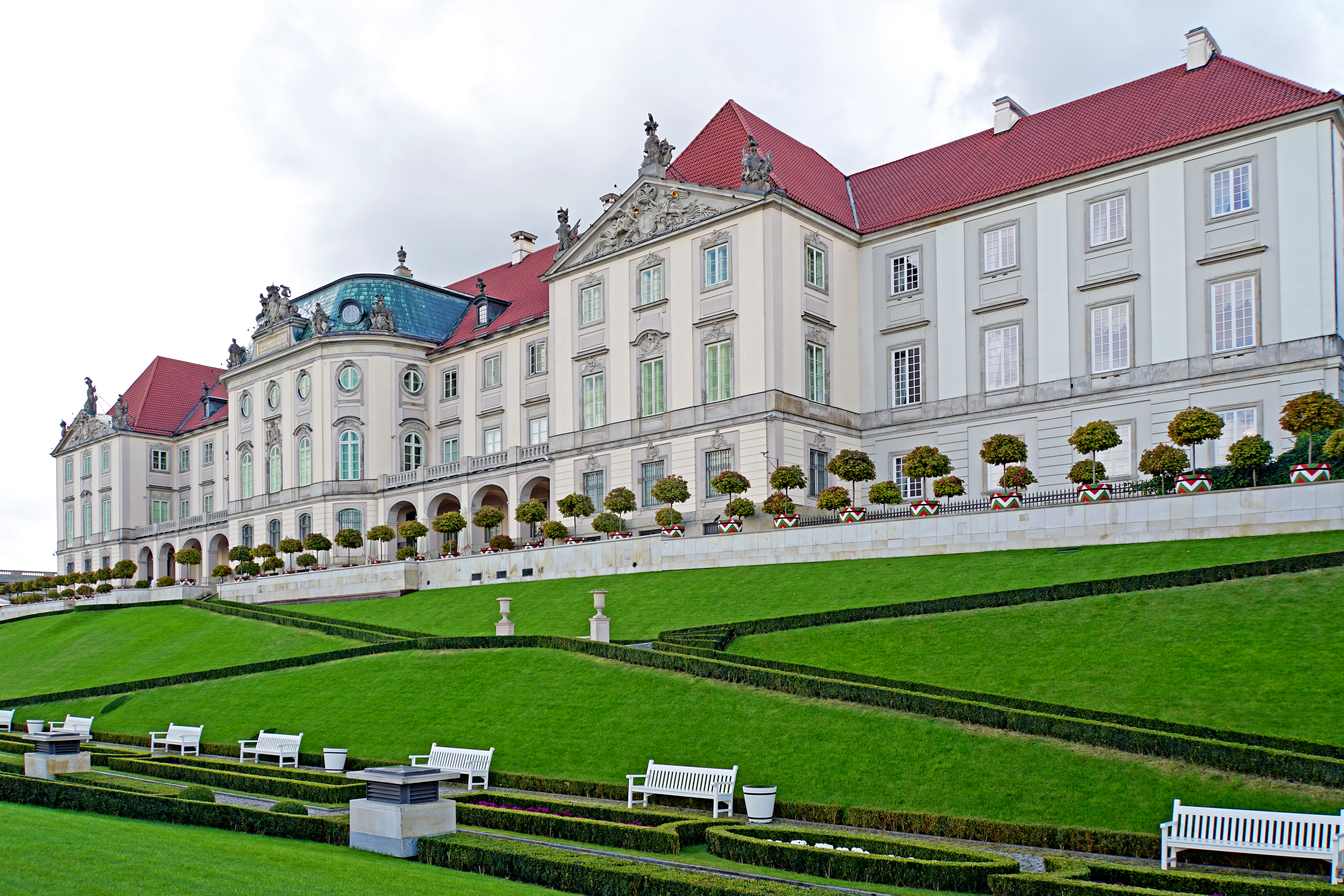 PLEASE, NO invitations or self promotions, THEY WILL BE DELETED. My photos are FREE to use, just give me credit and it would be nice if you let me know, thanks. The garden side of the Royal Castle. The garden extends over 2.5 hectares of land, from the Castle to the Vistula River, along the steep slope of the escarpment and along its base. It was first planted in medieval times, when the Castle still belonged to the Mazovian dukes.